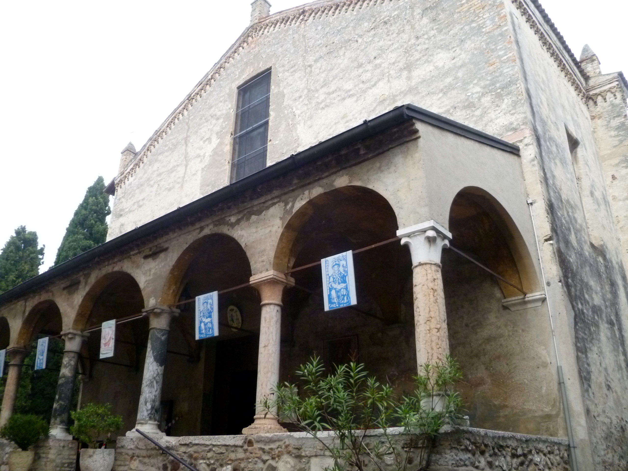 The church Santa Maria Maggiore, Sirmione, Lake Garda, Italy